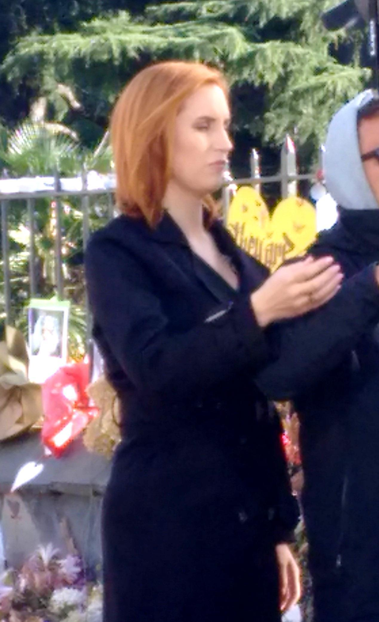 New Zealand presenter Samantha Hayes prepares to record outside of the botanic gardens and museum in Christchurch, the site of a vigil for victims of the 2019 Christchurch mosque shooting, on the day of the national remembrance service for victims.